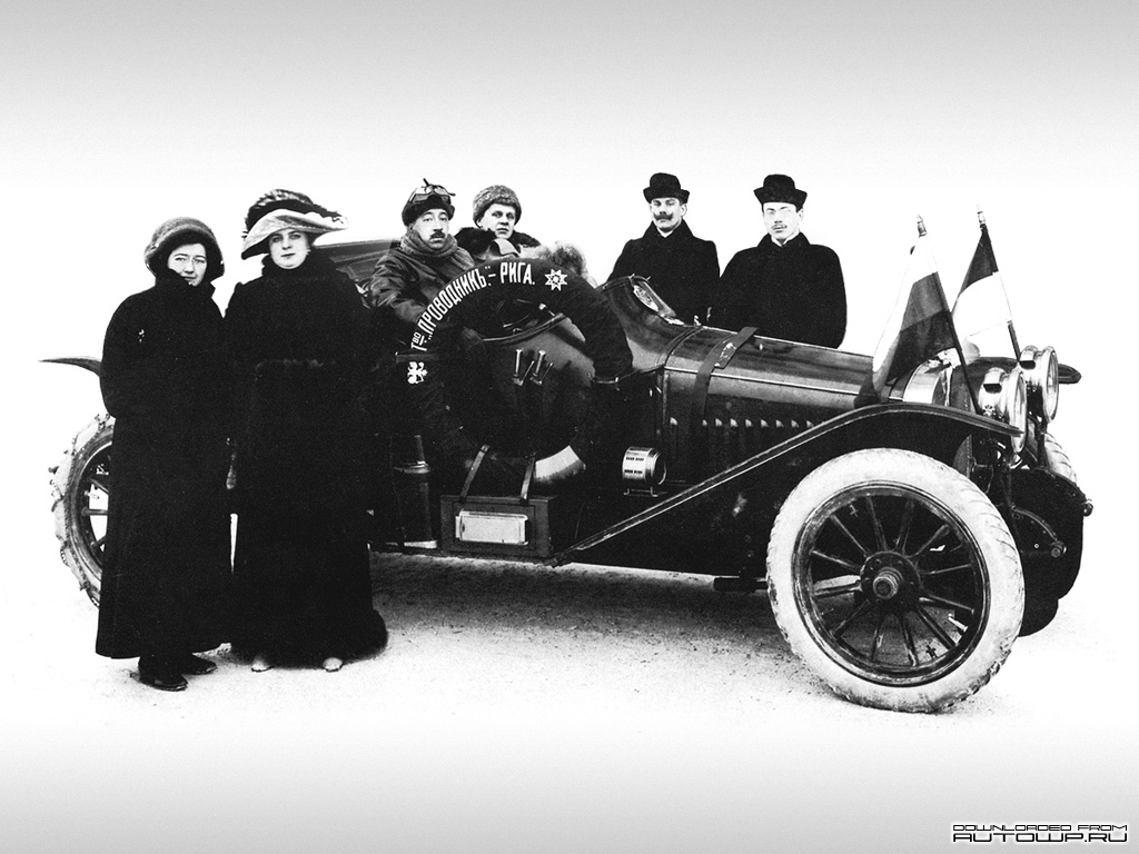 Entry #6 in 1912 Rallye Monte Carlo was a Russo-Baltique "Monako" Torpédo S24-55 with 4,939 ccm engine[1]. It was driven by Andrej Platonovics Nagel and Vagyim Alekszandrovics Mihajlov. They had started in St. Petersburg on January 13, and arrived on January 23, in 9th place.[2]. This picture is just before the takeoff, with the wives in front on January 13, 1912.[3]